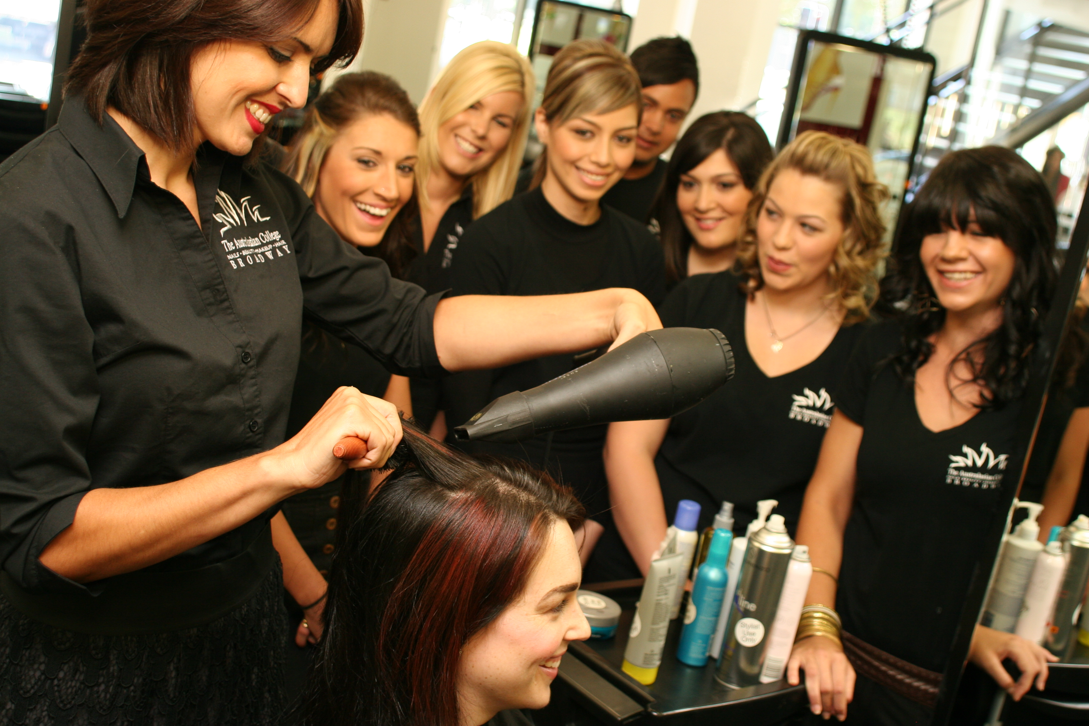 A College class